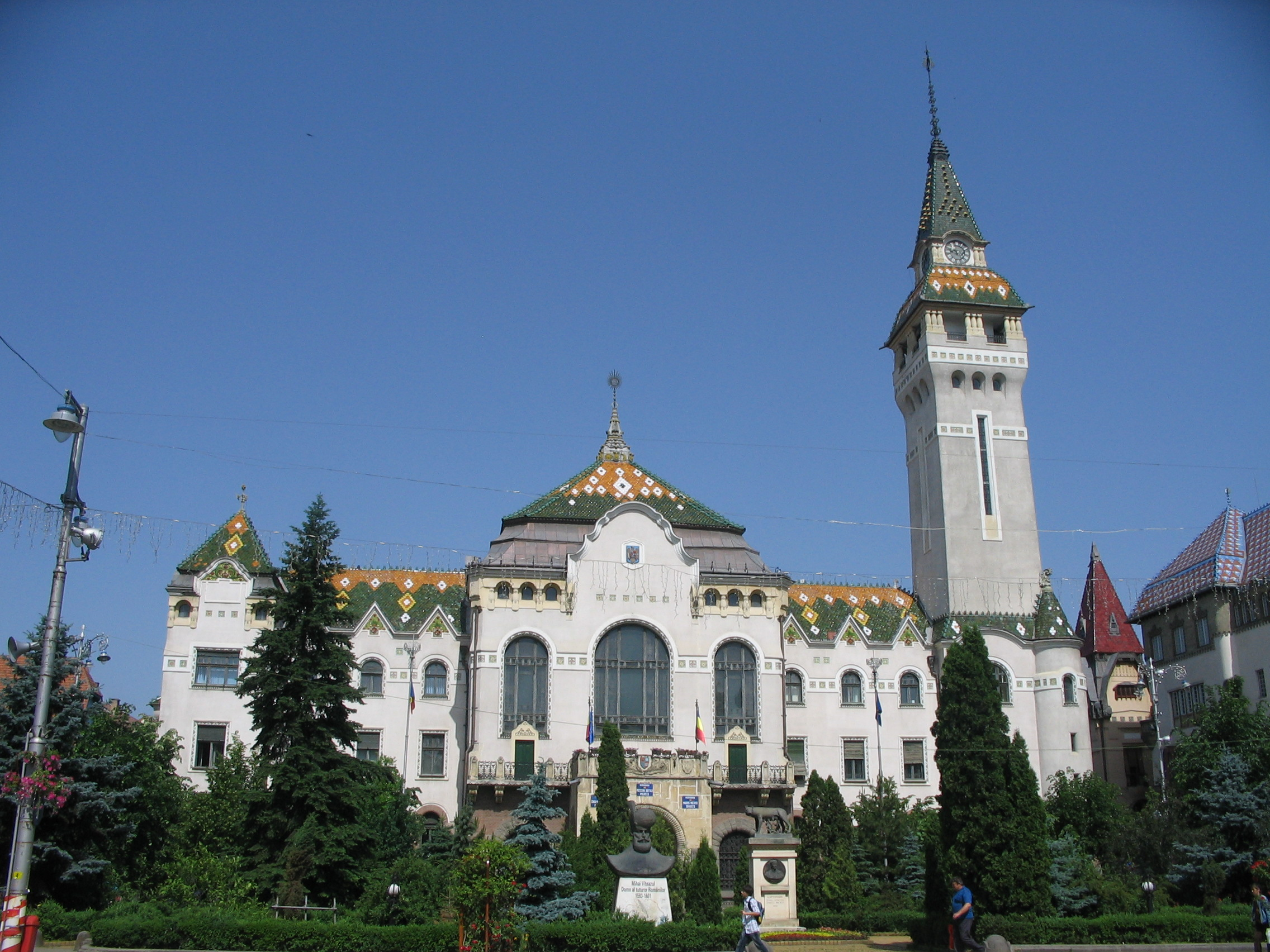 Mureş County Hall